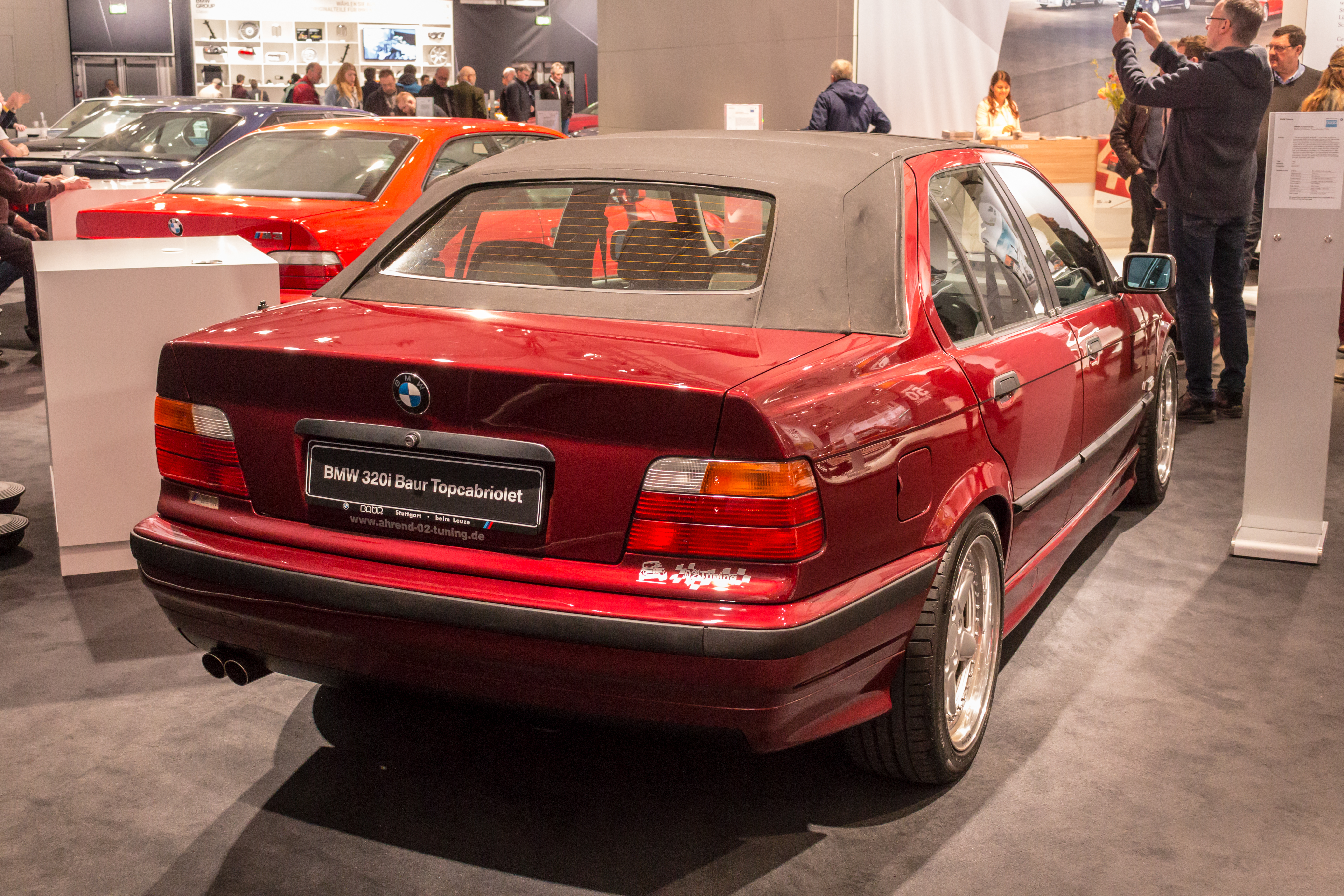 BMW, Techno-Classica 2018, Essen